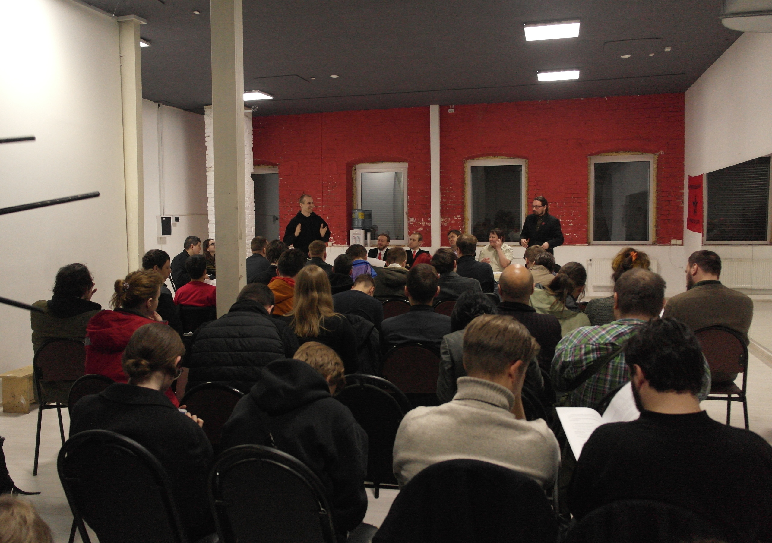 RWP/IMT-Russia unity congress